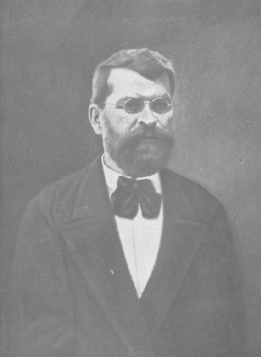 Maksymilian Siła Nowicki (1826–1890) Polish entomologist